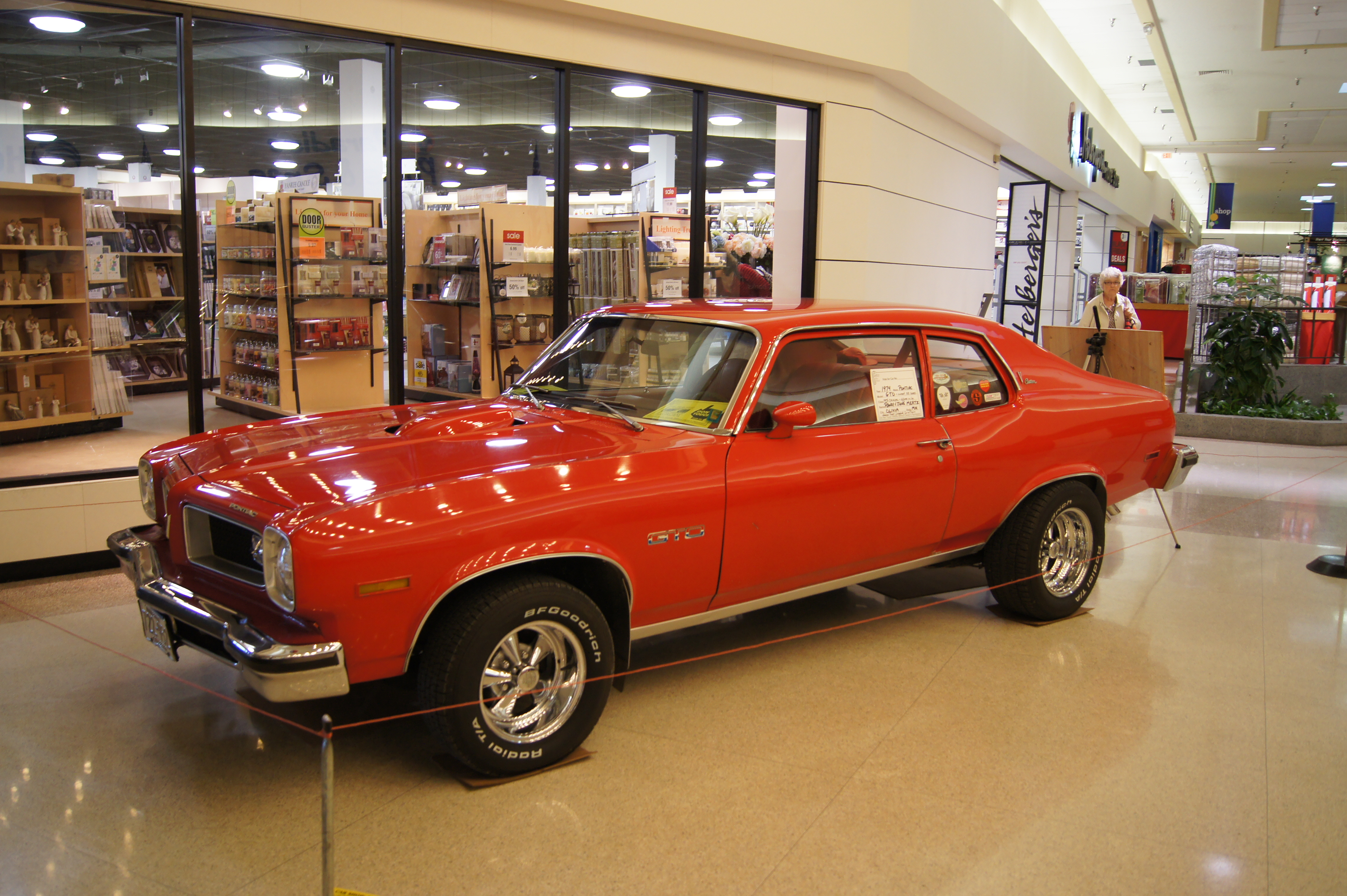 2013 Willmar Car Club Kandi Mall Display